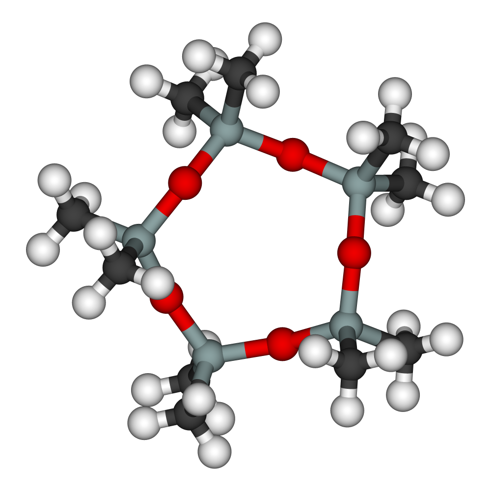 Decamethylcyclopentasiloxane